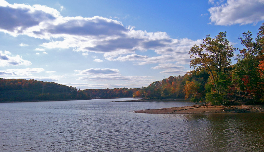 Photographed by Daniel Case 2006-10-15